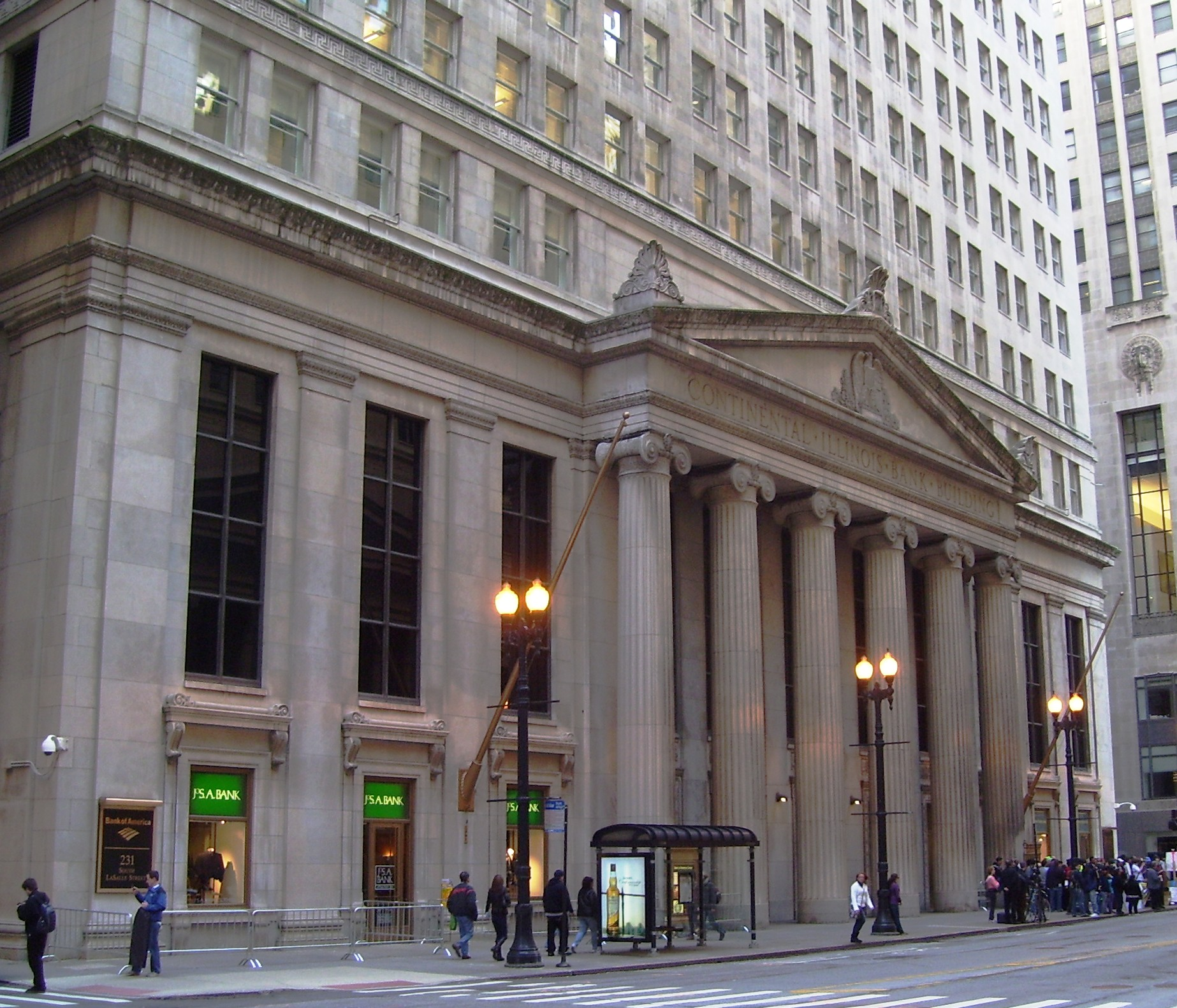 The Continental and Commercial National Bank Building at 208 South LaSalle Street in the Financial District of Chicago, Illinois